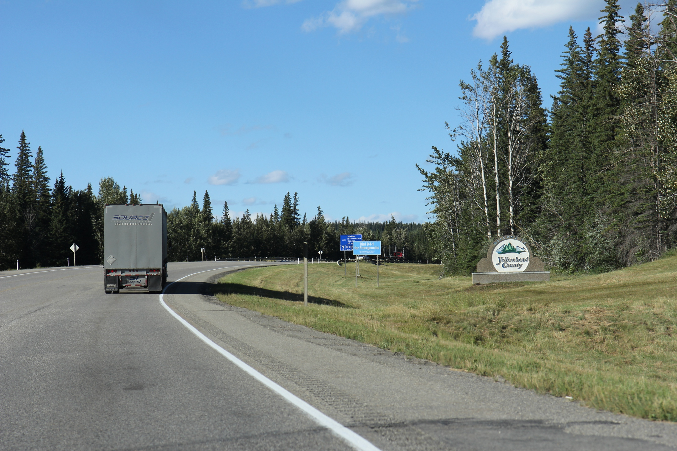 Entering Yellowhead County, Alberta looking easterly on the Yellowhead Highway.